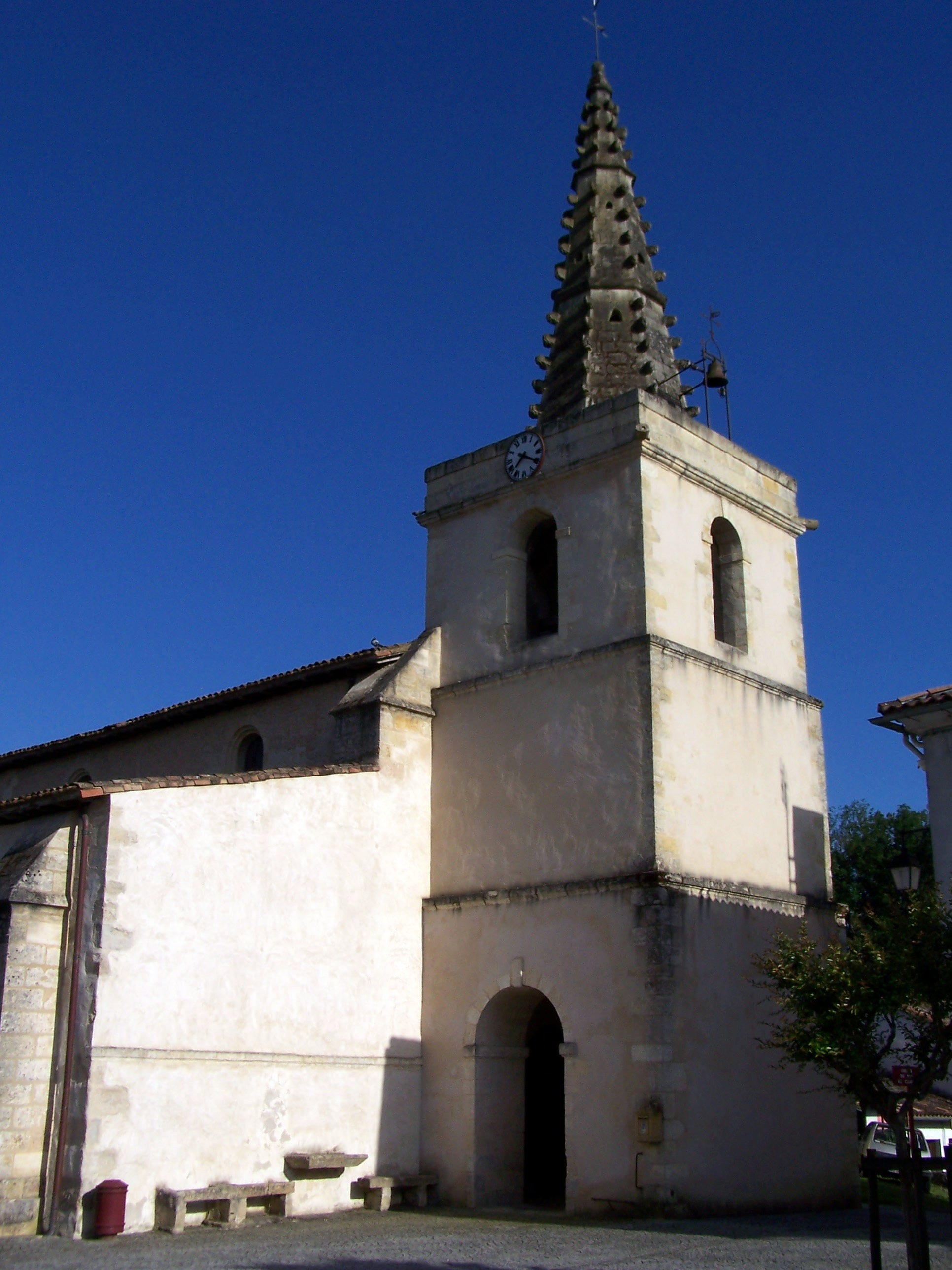 Church of Saint-Michel-de-Rieufret (Gironde, France)